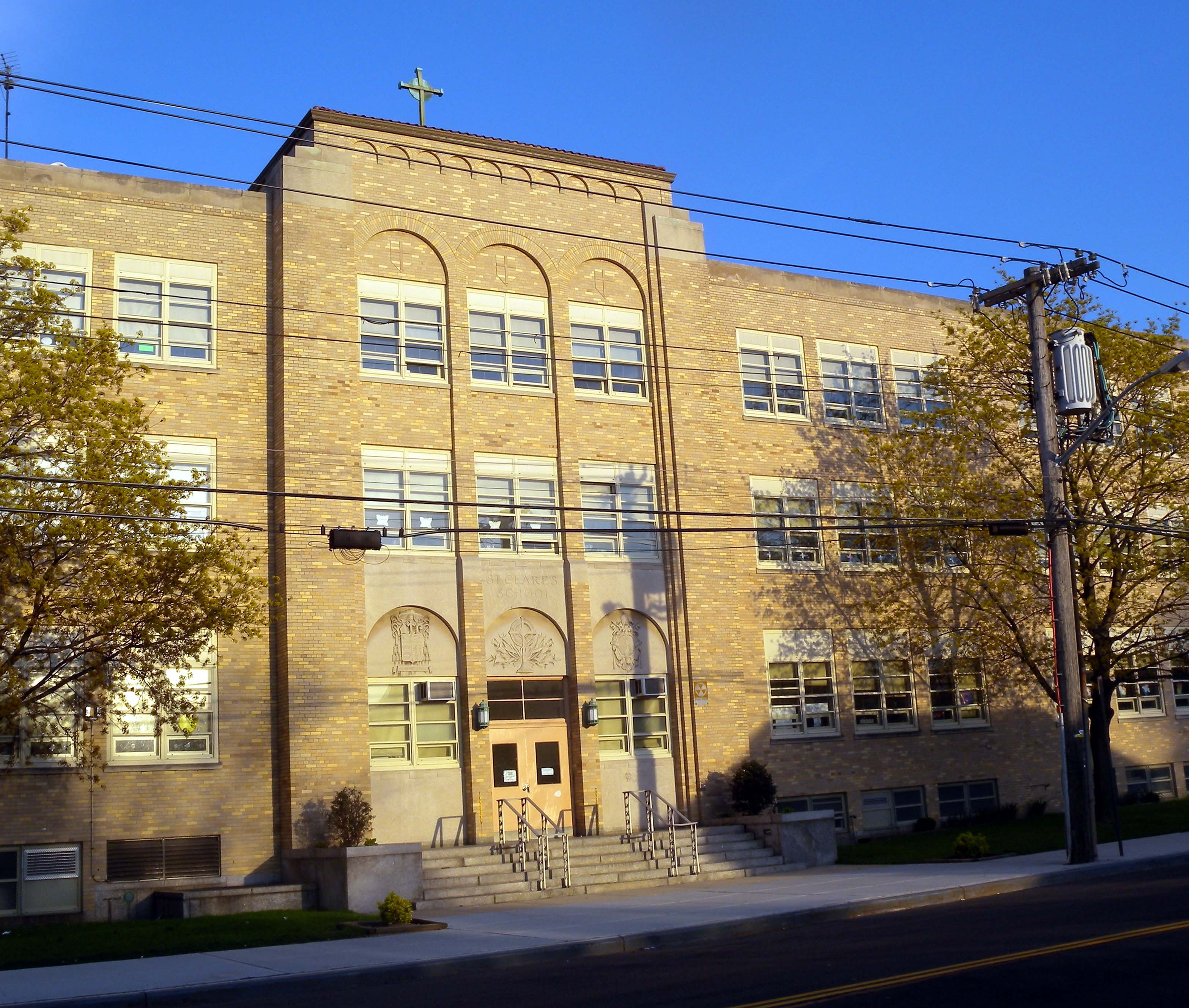 Looking southeast across Brookville Boulevard at St Clare's school in Rosedale, Queens shortly before dusk of a sunny evening. ZIP 11422.